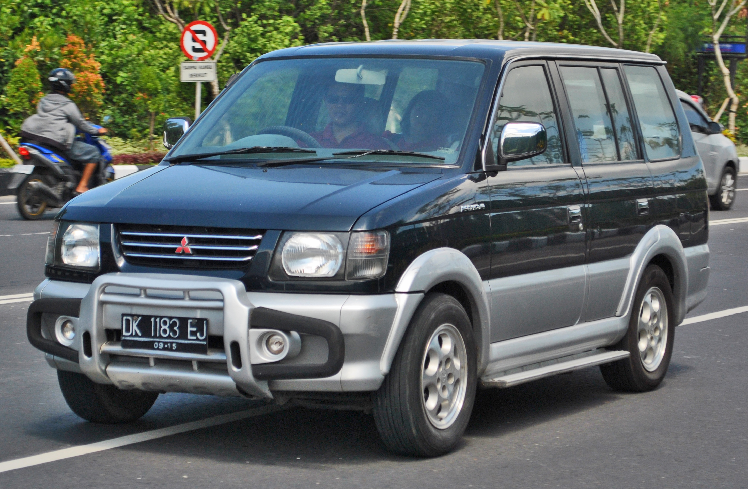 Front view of a Mitsubishi Kuda, Indonesian-market Mitsubishi Freeca, in Tuban, Bali.